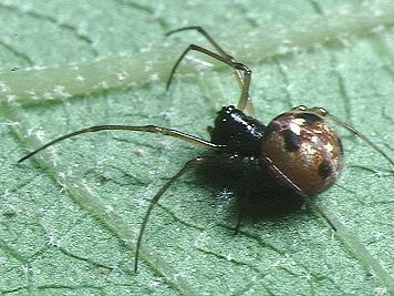 female Dyschiriognatha dentata from Okinawa.